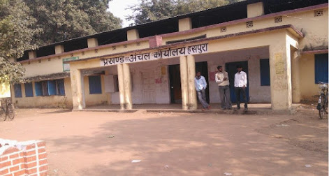 Block office, Haspura, Aurangabad, Bihar